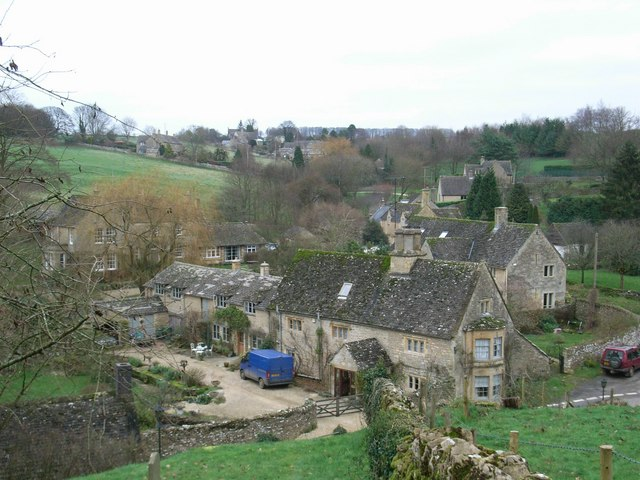 Compton Abdale, near to Compton Abdale, Gloucestershire, Great Britain. From the Eastern end of the churchyard.